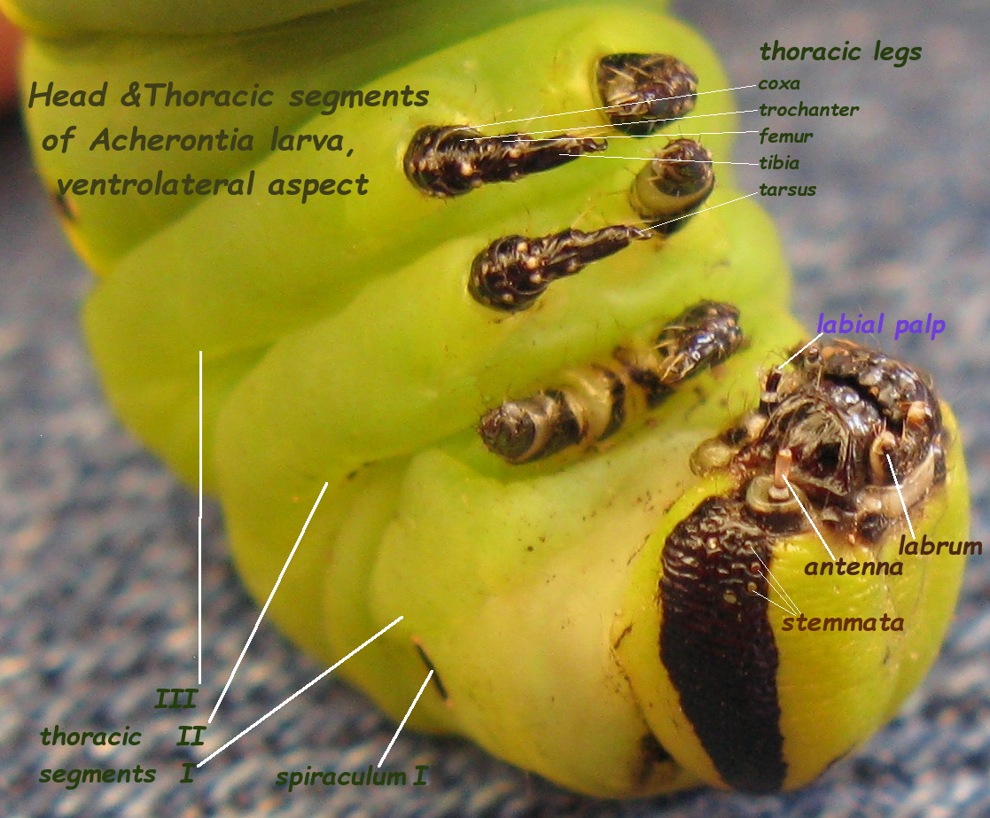 Showing annotated features typical of Lepidopteran larvae, thoracic legs and segments, stemmata, antenna etc Based on existing, unannotated photo of Acherontia atropos larva.